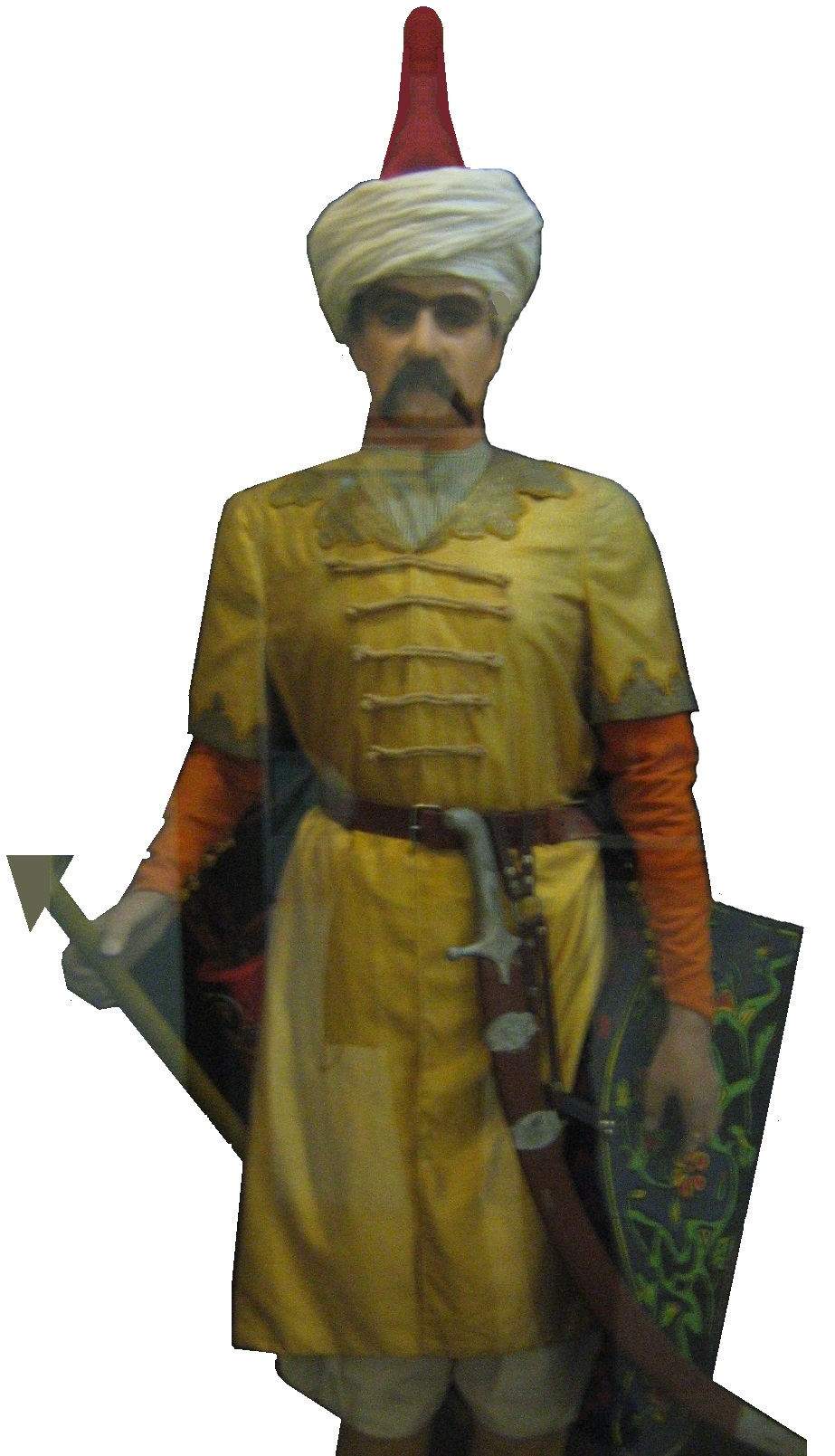 A Qezelbash Soldier; The manikin is exhibited in Sa'dabad complex